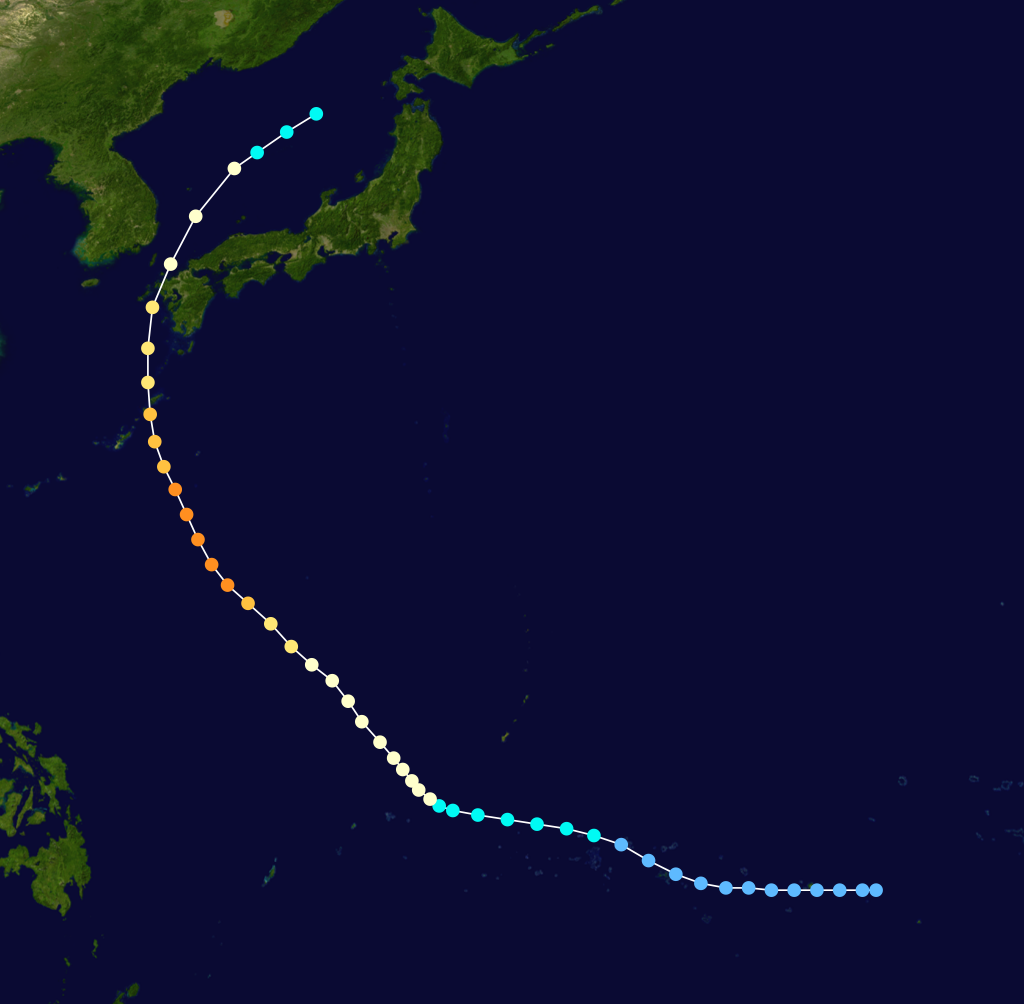 Typhoon Robyn 1993 track. Uses the color scheme from the Saffir-Simpson Hurricane Scale.